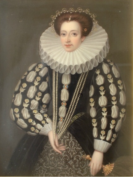 Anne Carey née Morgan (c.1529 - 1607), wife of Henry Carey, 1st Baron Hunsdon